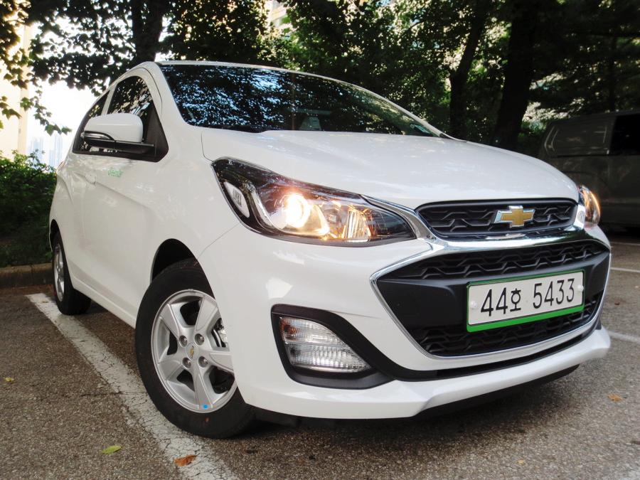 Chevrolet Spark (M400)